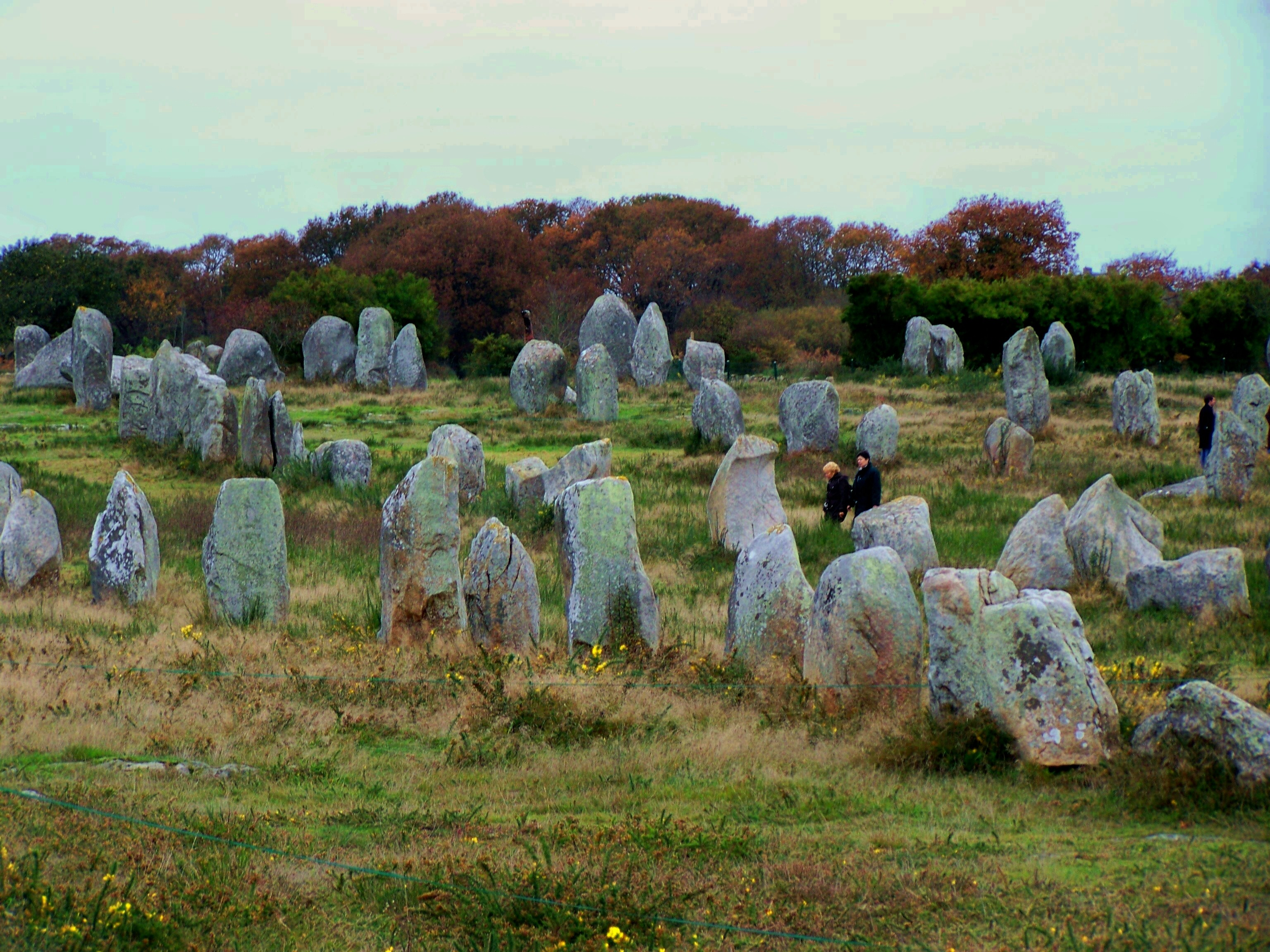 Standing Stones in the Menec alignment, Carnac, France